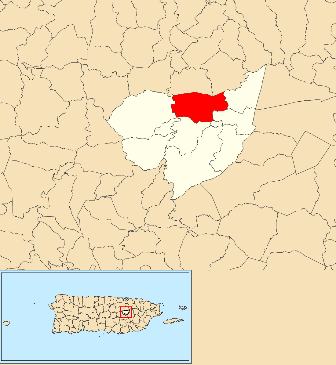 Sonadora, Aguas Buenas, Puerto Rico locator map